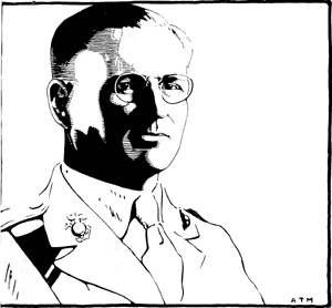 Major Edwin N. McClellan, Marine historian, as portrayed by A. T. Manookian in a 1925 pen and ink drawing